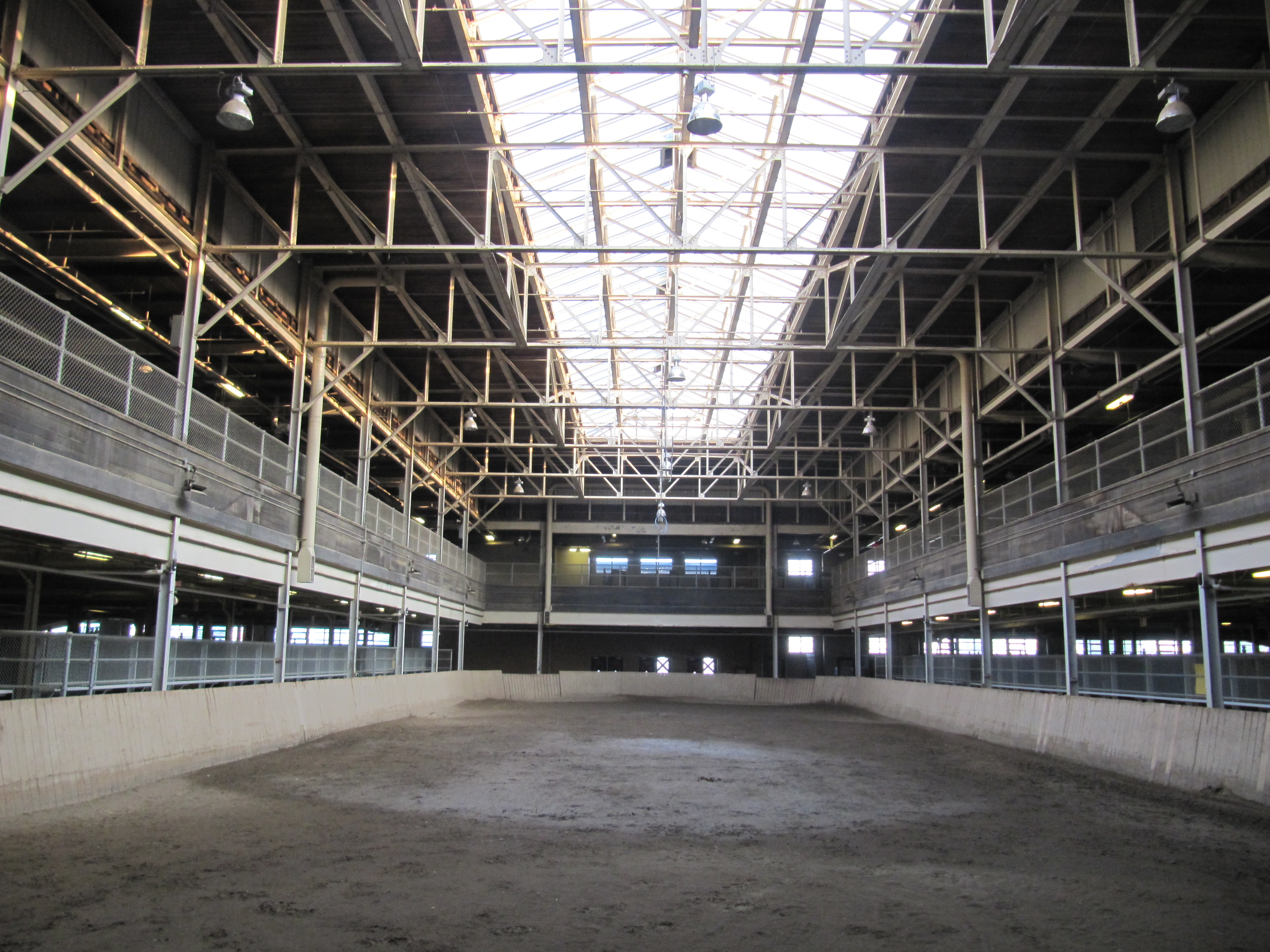 Horse Place practice ring